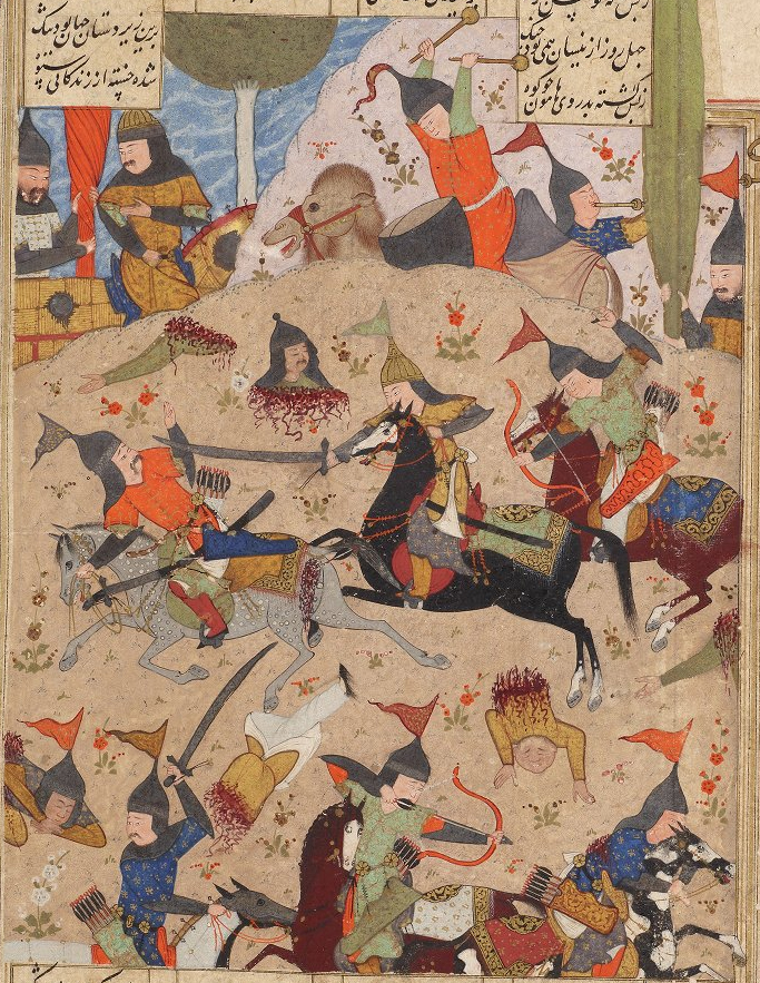 Battle of Hormozdgan, illumination from a Shahnameh manuscript, Folio 402, verso